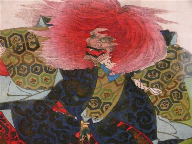 painted by Kawanabe Kyosai "Renjishi"